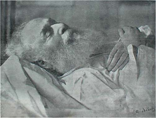 Poet Akaki Tsereteli on his death-bed, Sachkhere Georgia, 1915